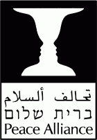 Brit Shalom logo. Brit Shalom is an Israel human rights organisation.